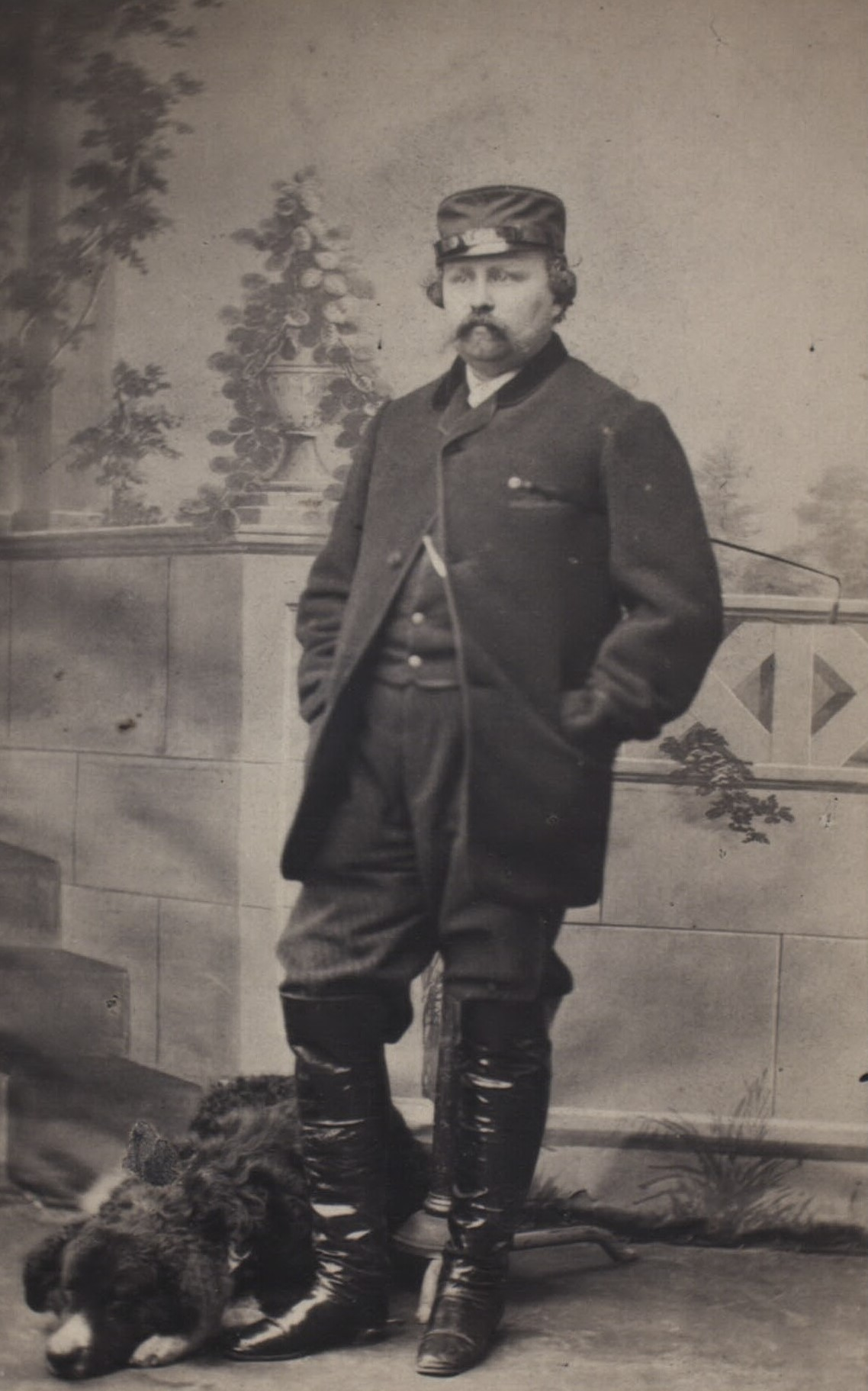 Georg Emil Hansen (1833-1891), Danish photographer